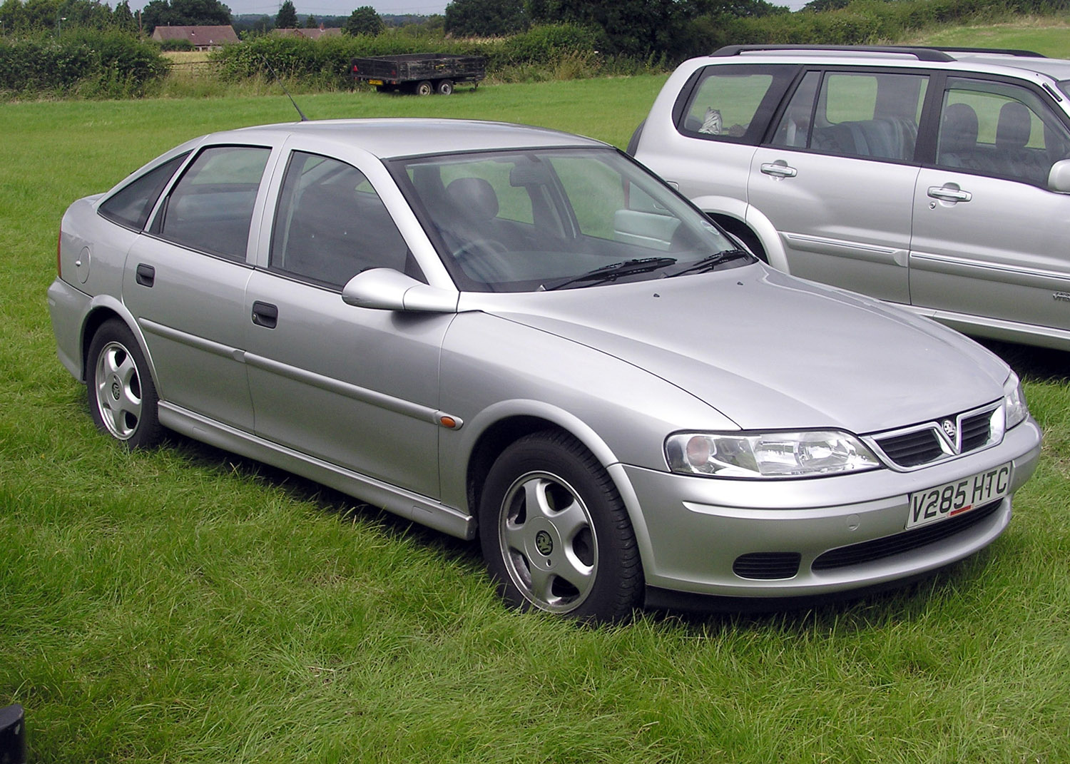 2000 Vauxhall Vectra 1.8 at Coalpit Heath Car Show, near Bristol, England. Taken by Adrian Pingstone in July 2004 and released to the public domain.